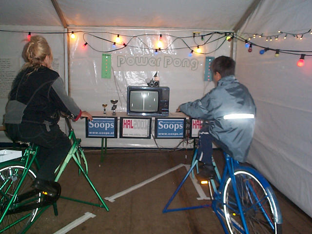 Game of Power Pong (bicycle powered video game), as demonstrated at the "Hackers At Large" conference, Enschede, The Netherlands, August 10-11-12 2001